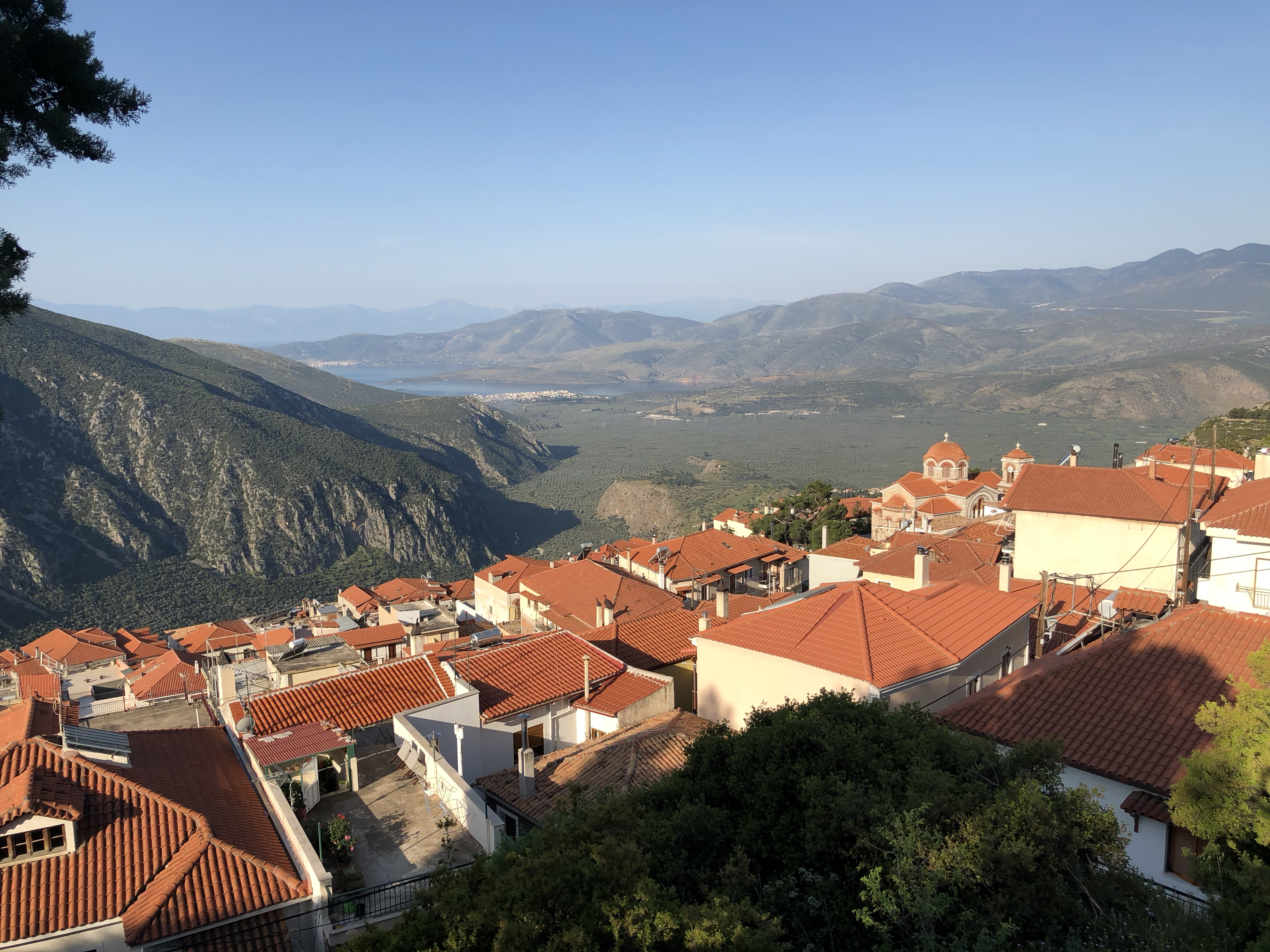 View of Delphi